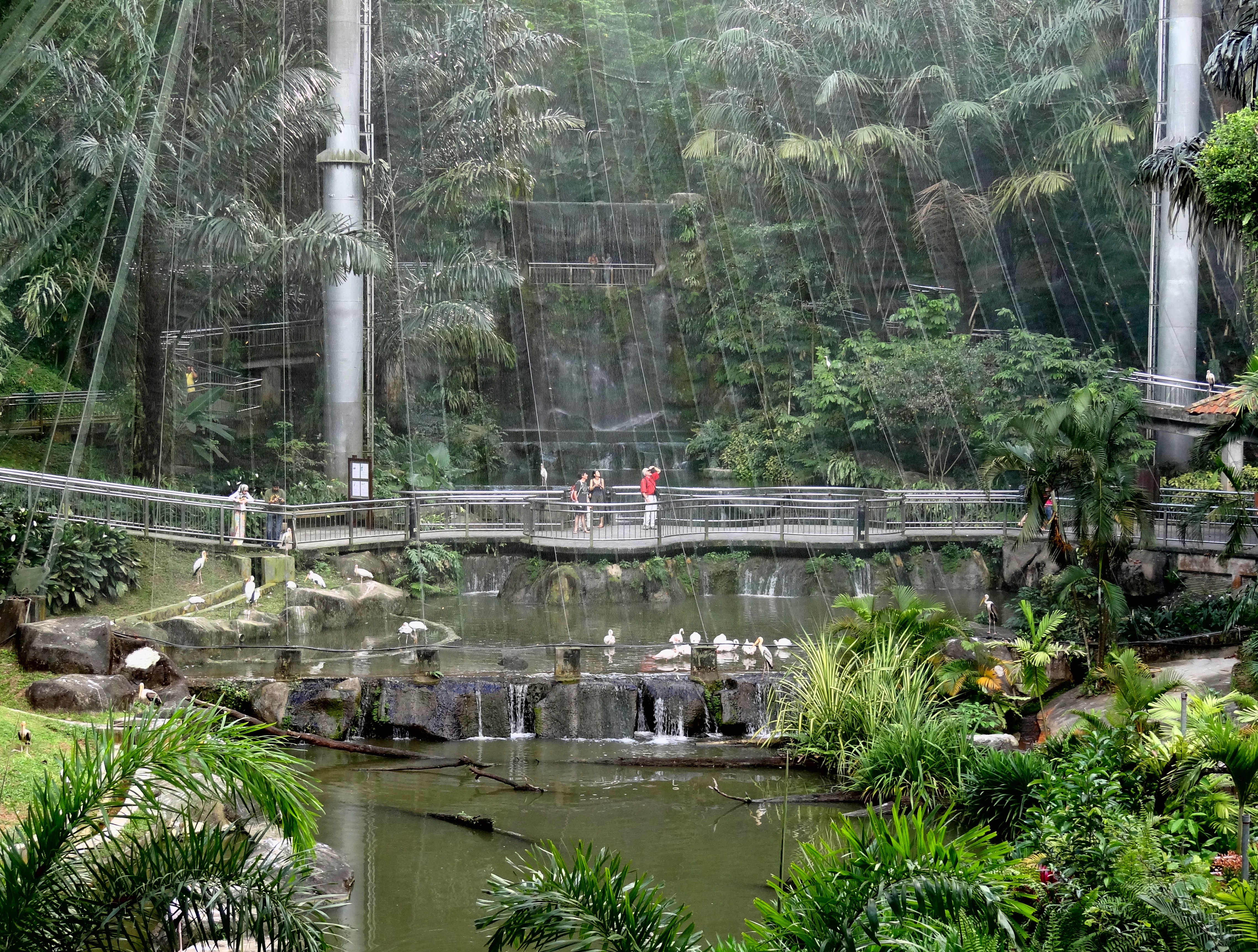 The aviary at the Kuala Lumpur Bird Park is among the largest in the world. It creates a very jungle-like atmosphere, and the birds almost always outnumber the humans.